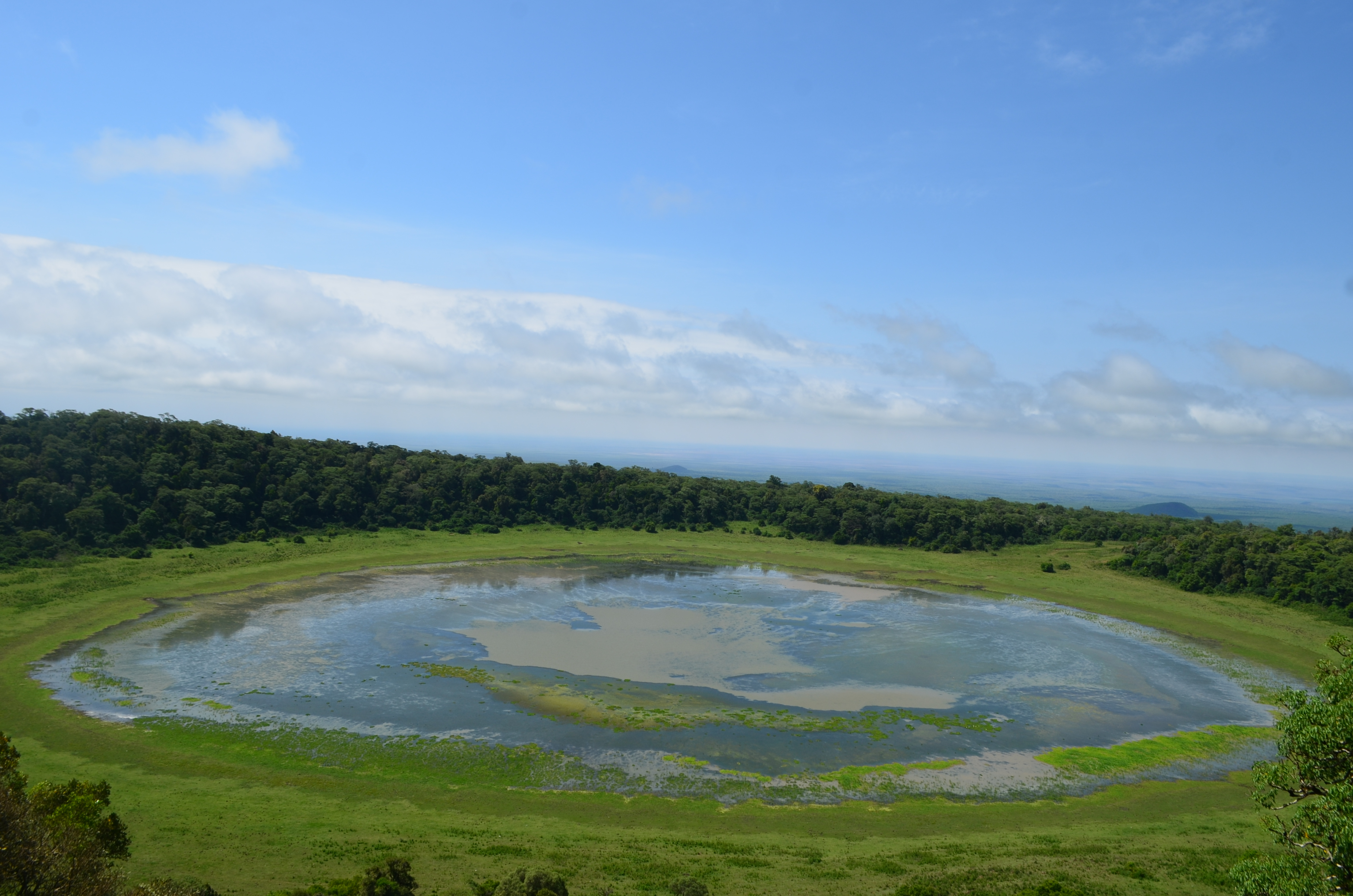 The only crater lake of its own kind in the entire Africa,Lake Paradise found on Mount Marsabit in Kenya. This is an image of "African people at work" from Kenya